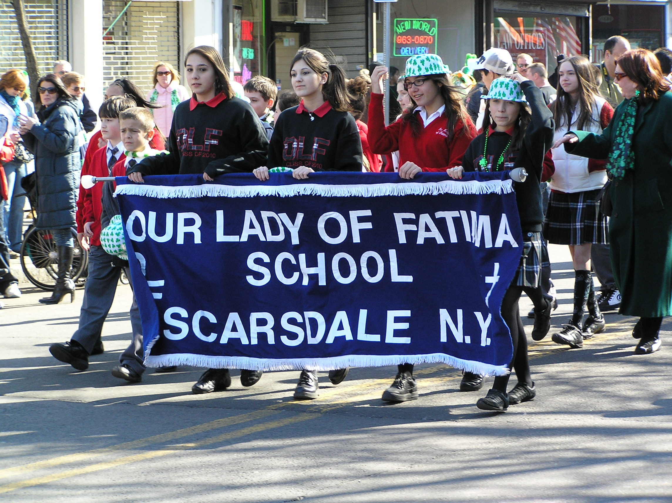 Students at Our Lady of Fatima School of Scarsdale march in the Yonkers Saint Patrick's Day Parade